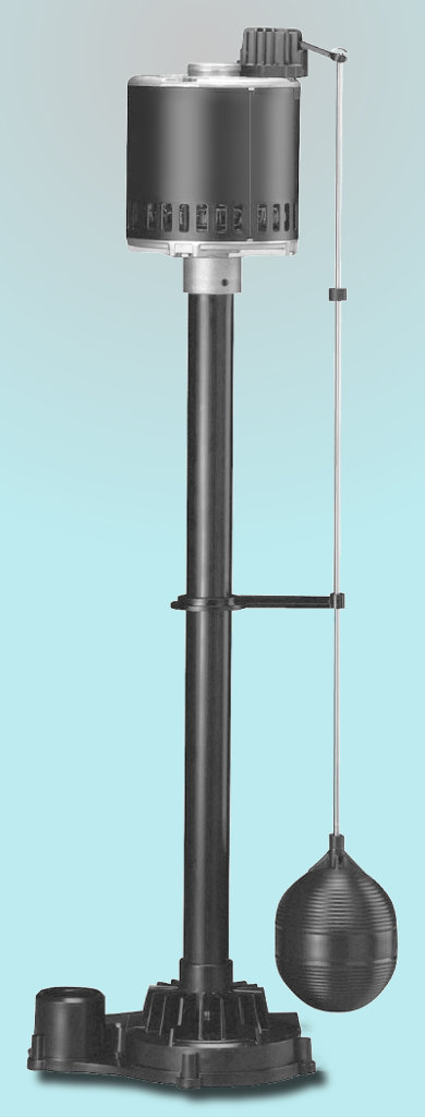 Illustration of a typical pedestal-style sump pump. The pump impeller is located in the foot of the pump and the discharge port is at the left side of the foot, threaded to accept a pipe that carries the water up and away from the area. The centrifugal impeller is driven by a metal shaft located in the vertical tube, atop which is a fractional-horsepower electric induction motor. At the right is a black plastic float of the type used in toilet tanks, attached to a vertical rod that is free to move up and down in the guide attached to the drive shaft tube. An adjustable rubber stop on the rod rises with the rod to trip the lever of the power switch mounted on top of the motor, thus starting the pump. As the water level drops, the rod falls and a nut or cap on the upper end of the rod pulls the switch lever down and shuts the pump off. As the sump refills the cycle repeats.